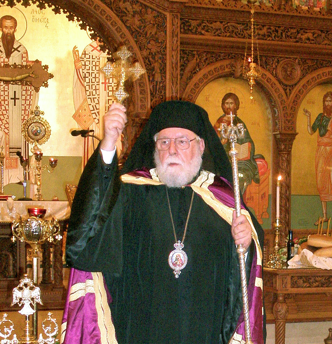 His Grace, Bishop Ilia (Katre) of Philomelion, ruling bishop of the Albanian Orthodox Diocese of America (2002-), serving Great Vespers on September 13, 2008, the forefeast of the Exaltation (Elevation) of the Holy Cross. Annunciation of the Virgin Mary Greek Orthodox Cathedral, Toronto, Ontario, Canada.